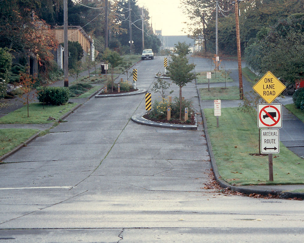 One-lane chicane (likely located in Seattle, Washington)